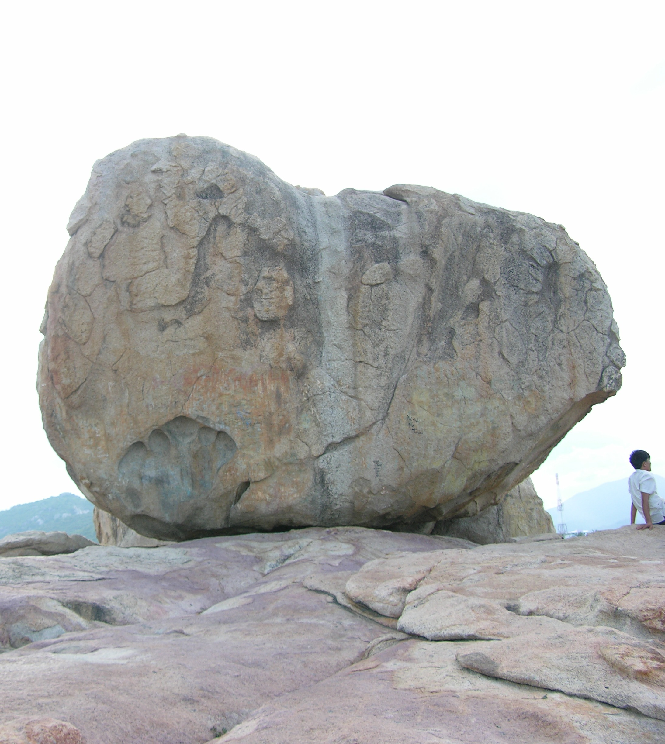 The biggest rock with hand sign, Hon Chong, Nha Trang, Viet Nam